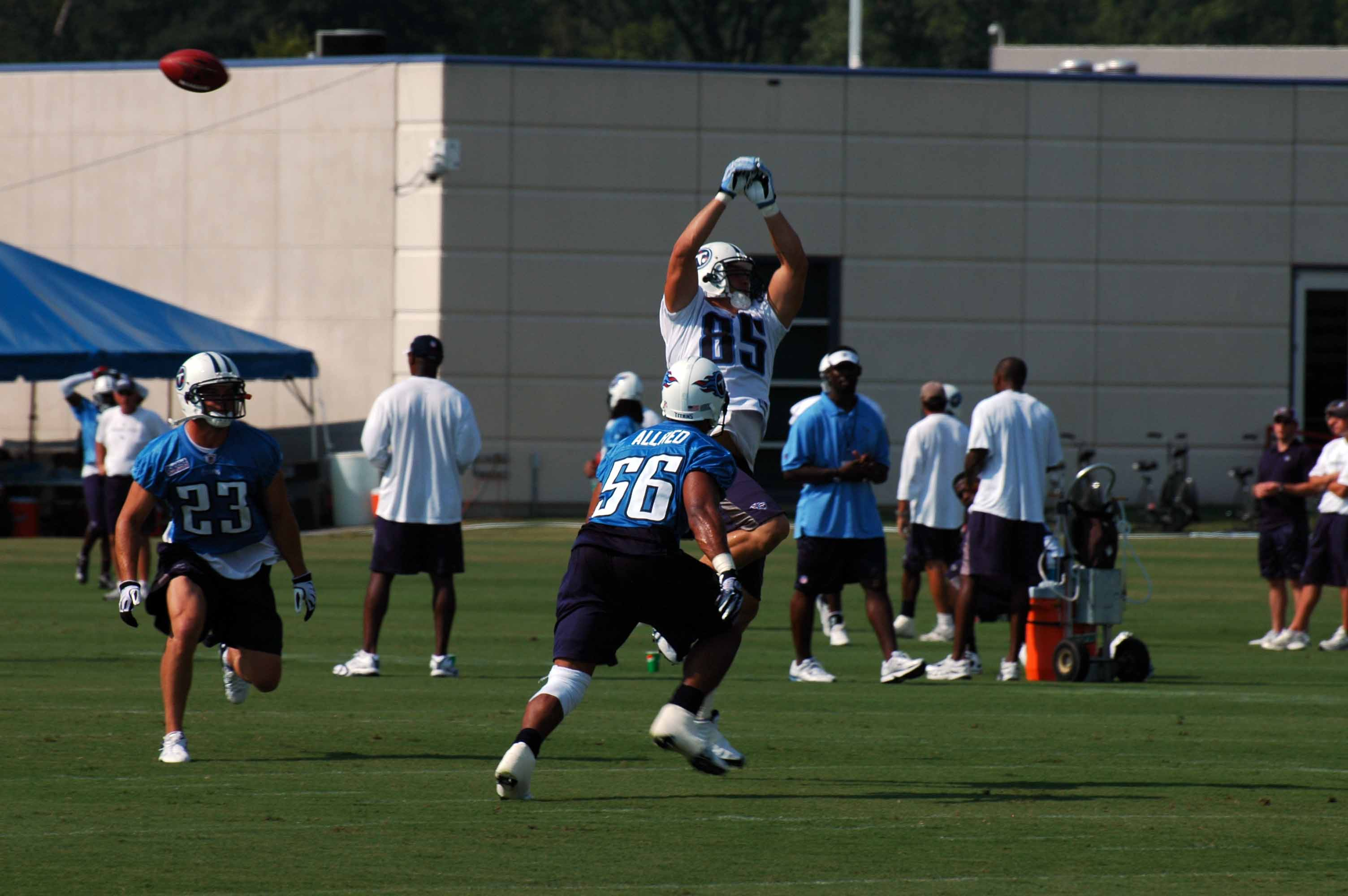 Tennessee Titans linebacker and future U.S. Representative Colin Allred (#56) plays on defense against tight end Jamie Petrowski (#85) during training camp on July 26, 2008 at Saint Thomas Sports Park in Nashville. On the left is safety Donnie Nickey (#23). Source for names: Tennessee Titans training camp roster archived on July 26, 2008